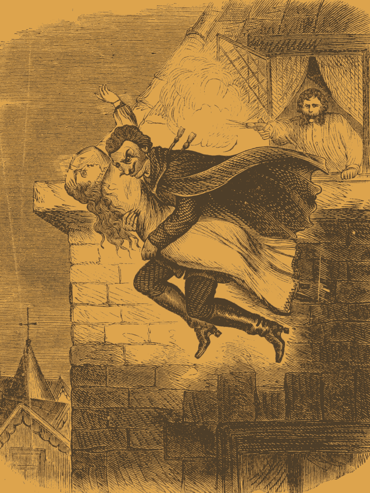 Spring Heeled Jack as depicted by an anonymous artist - English penny dreadful (c. 1860)